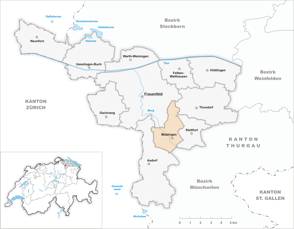 Municipality Matzingen